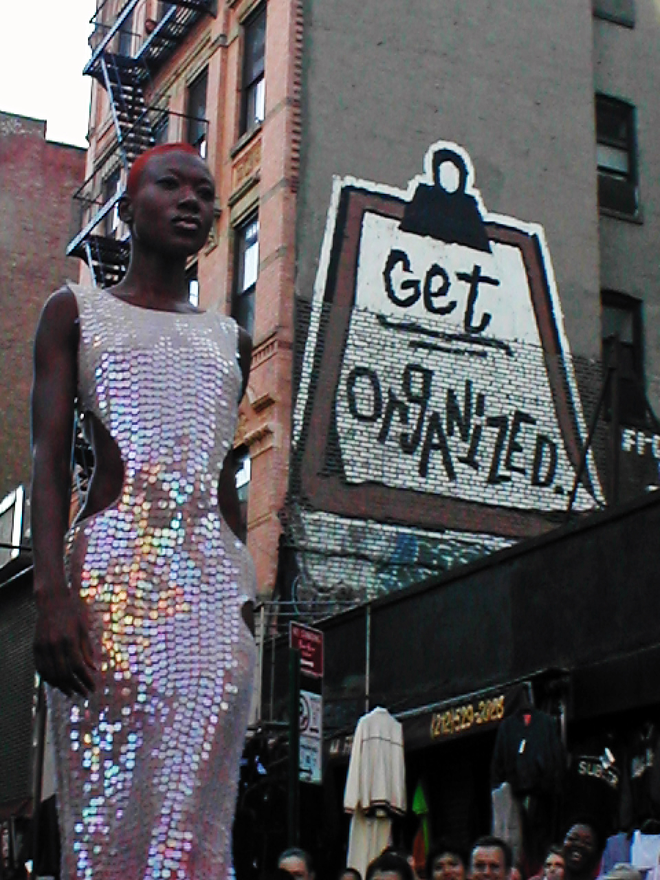 Sequin dress worn by a model on the Lower East Side of Manhattan.